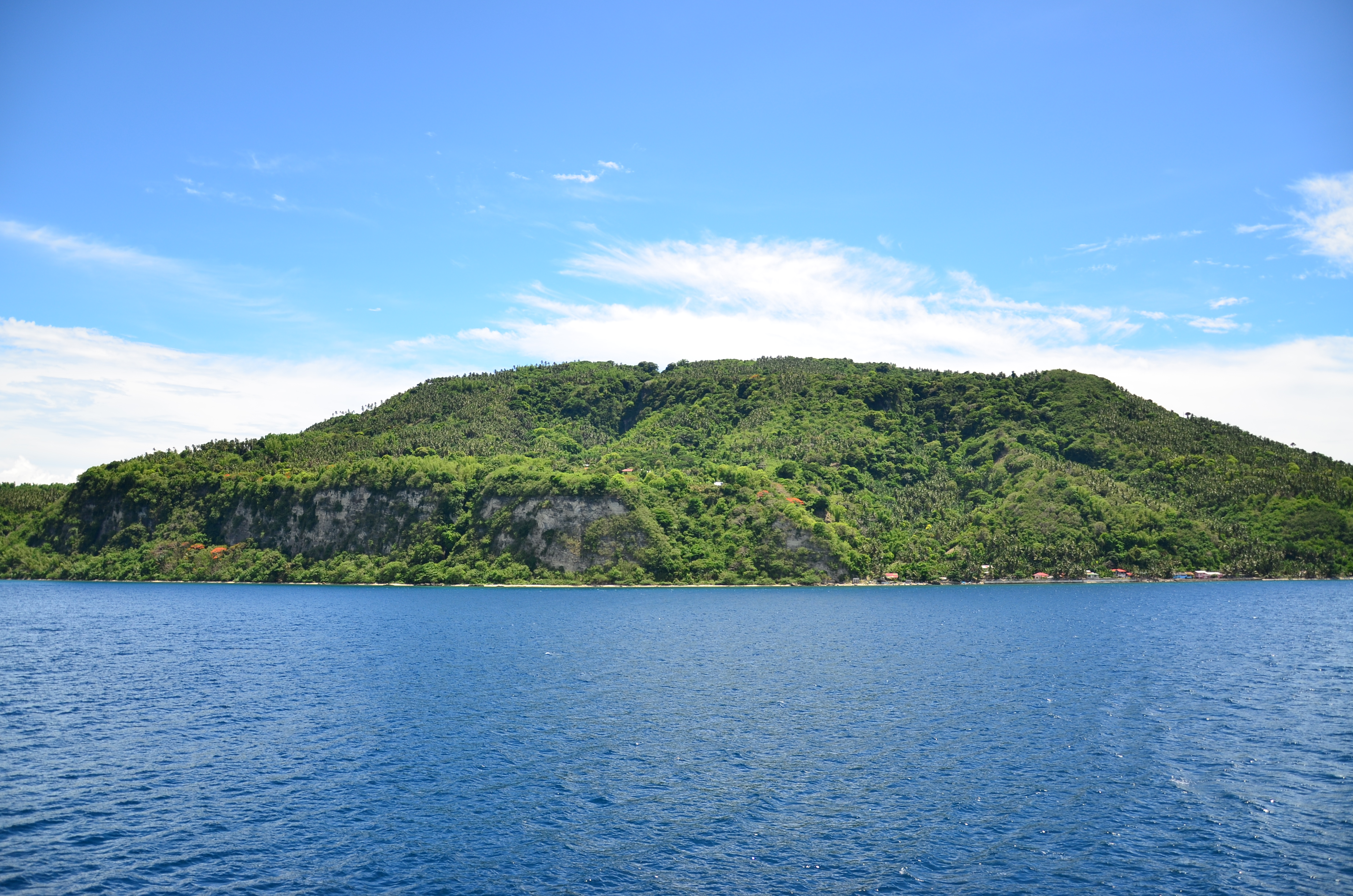 Verde Island is situated along the bodies of Verde Island Passage between the islands of Luzon and Mindoro, Philippines. It was on 1988 when a small village was created through the effort of a European project using technologies such as solar panels for the island's self-sufficiency. Since then, it has been declared by the Philippine Tourism Authority as one of the country's marine reserves.[1][2]